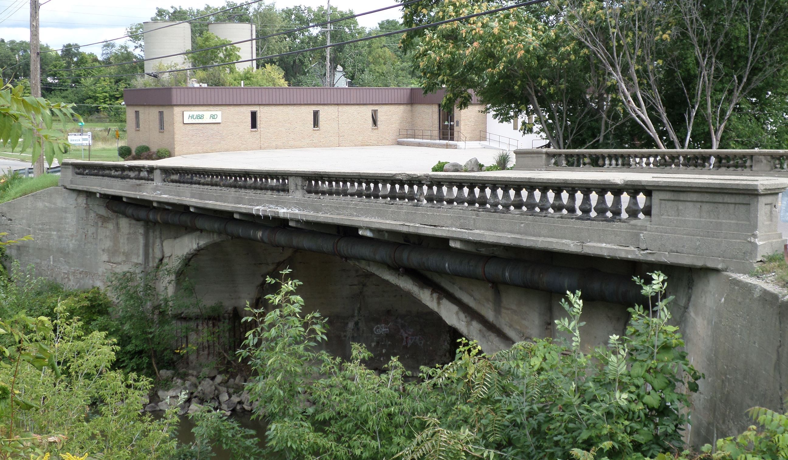 The Second St Bridge over Swartz Creek, located in Flint, MI.